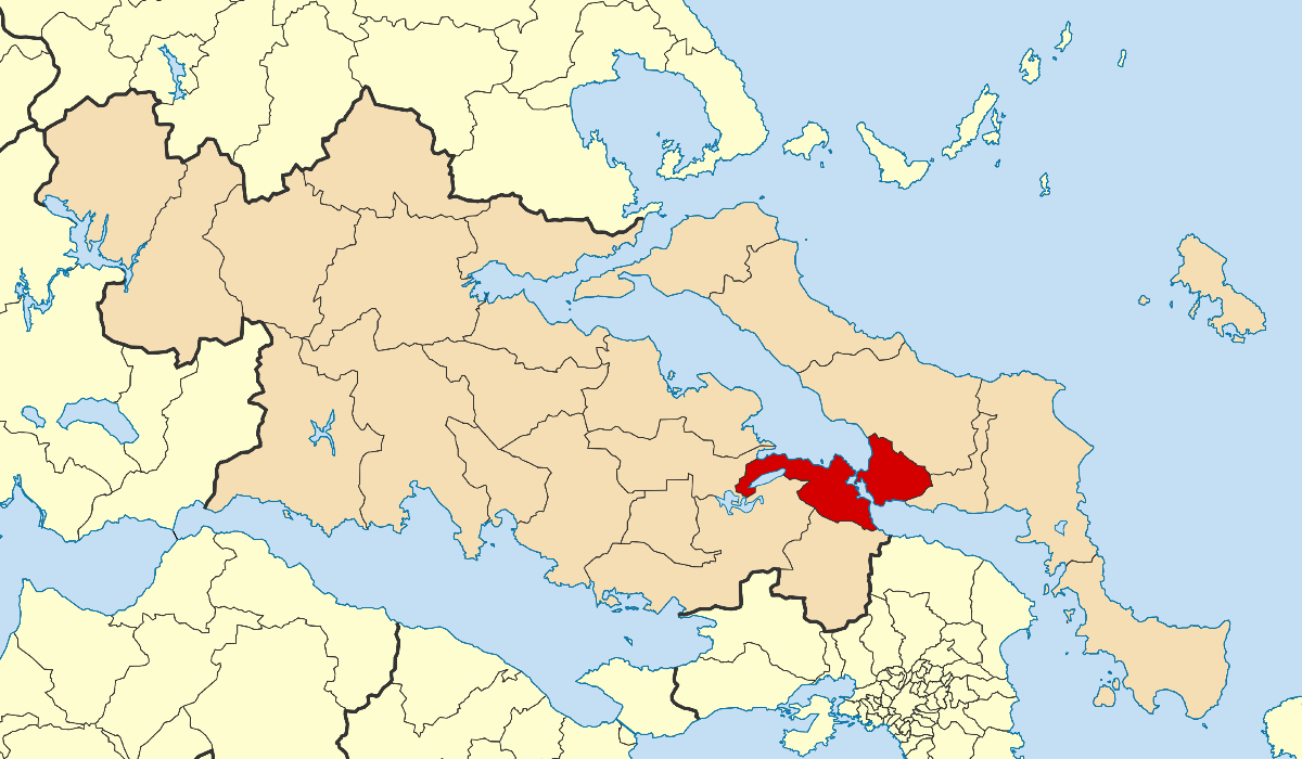 Locator map for Chalkida municipality in Greek region Central Greece (2011)